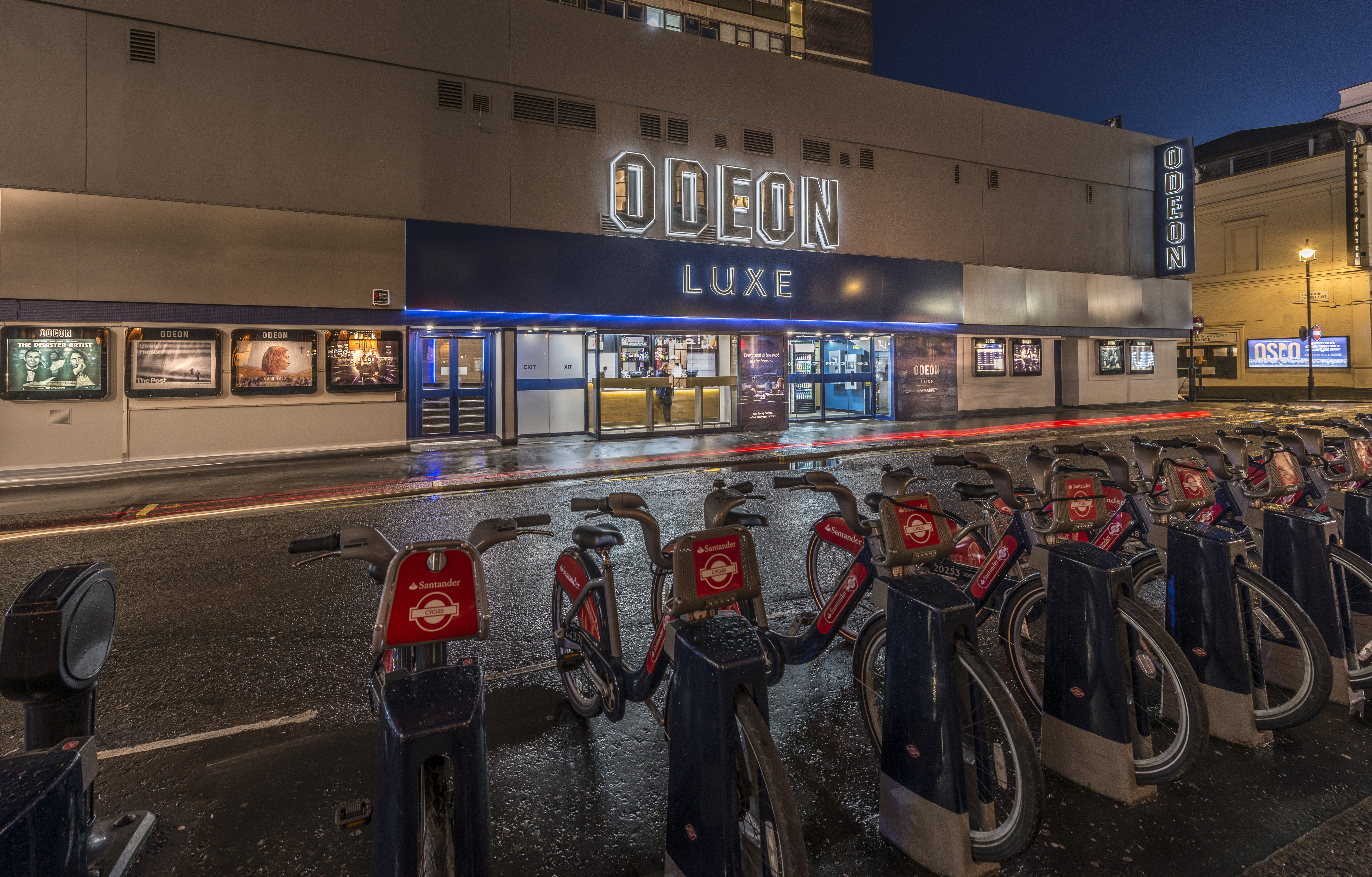 External of the cinema ODEON Luxe Haymarket in London